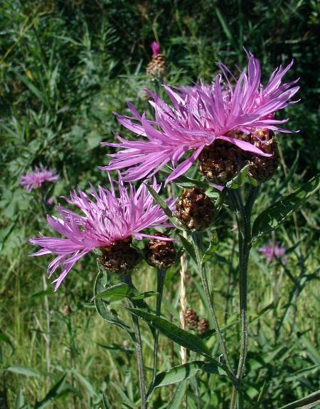 Centaurea jacaea: Flowers and leaves. Natural habitat in Jutland.